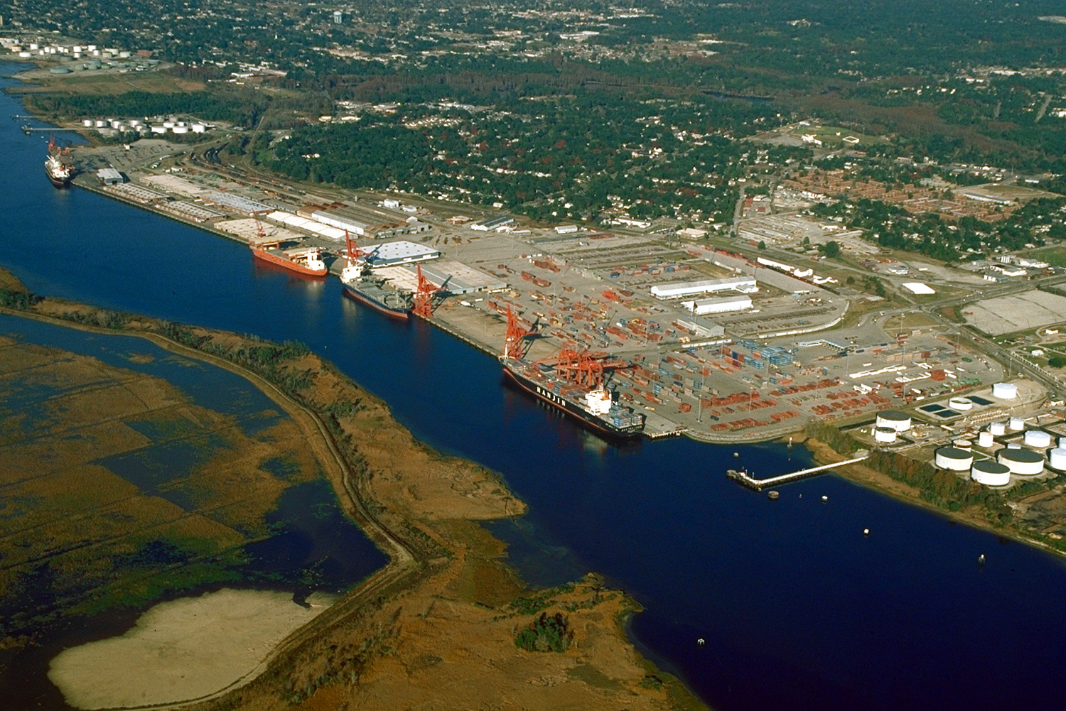 Aerial view of the port and city of Wilmington, North Carolina, USA. The port facility is located on the estuary of the Cape Fear River. View is upriver to the north. In this photograph the tide is apparently flowing in quite strongly. Coordinates: 34°11′48.31″N 77°57′17.51″W / 34.1967528°N 77.9548639°W